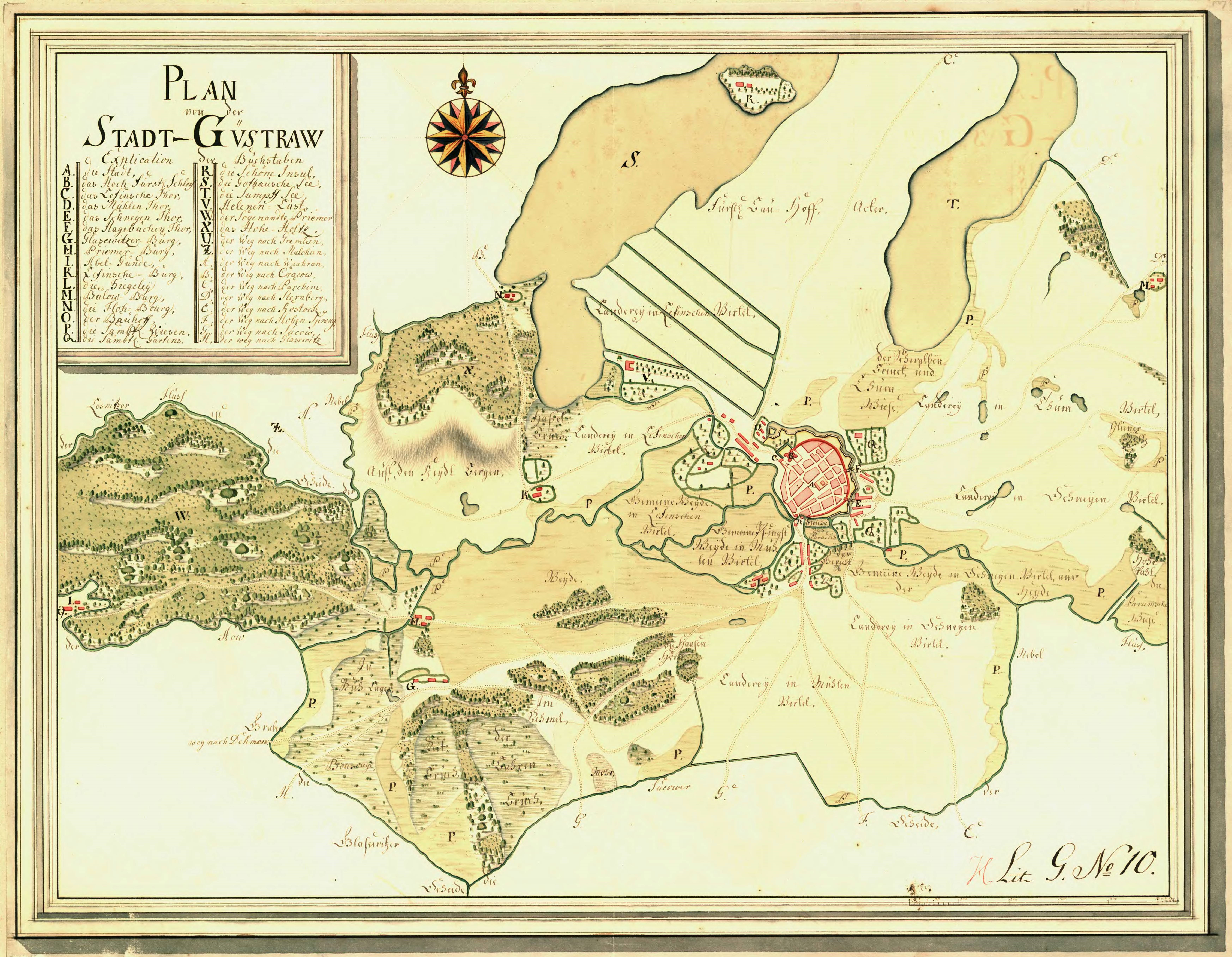 Citymap of Güstrow